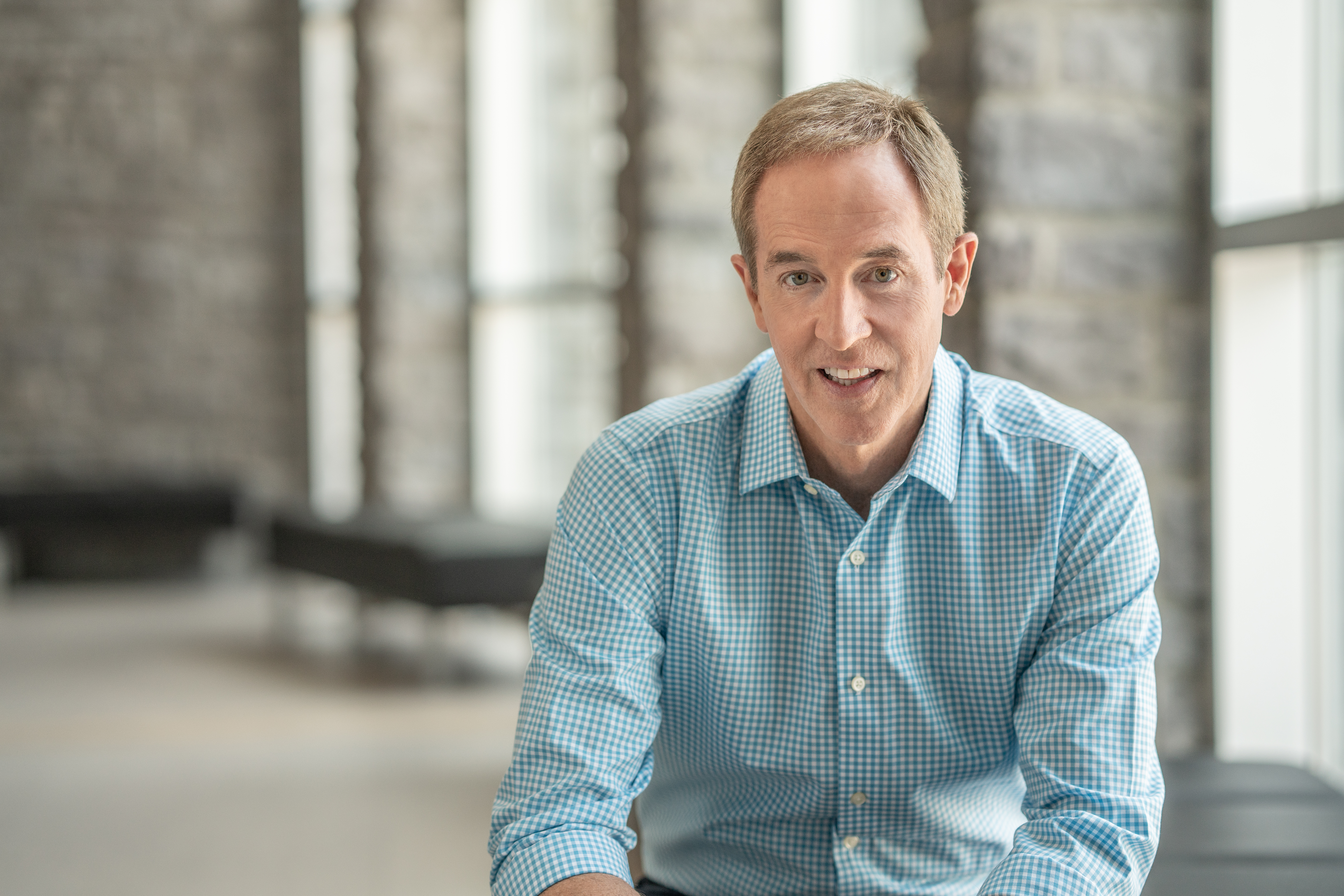 Andy Stanley